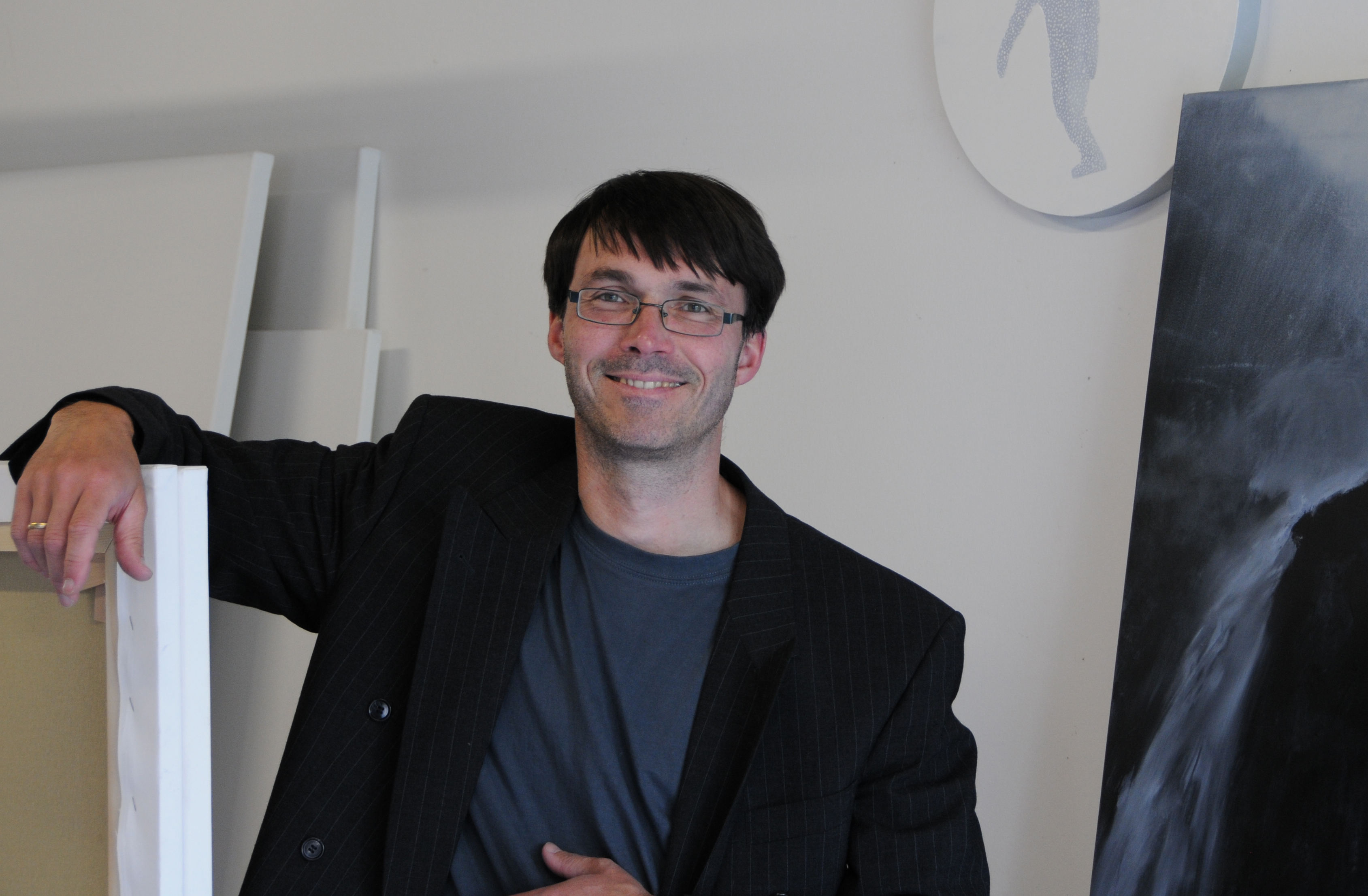 Gerhard Rießbeck in his studio in Bad Windsheim. The photo was taken by his son Kilian.